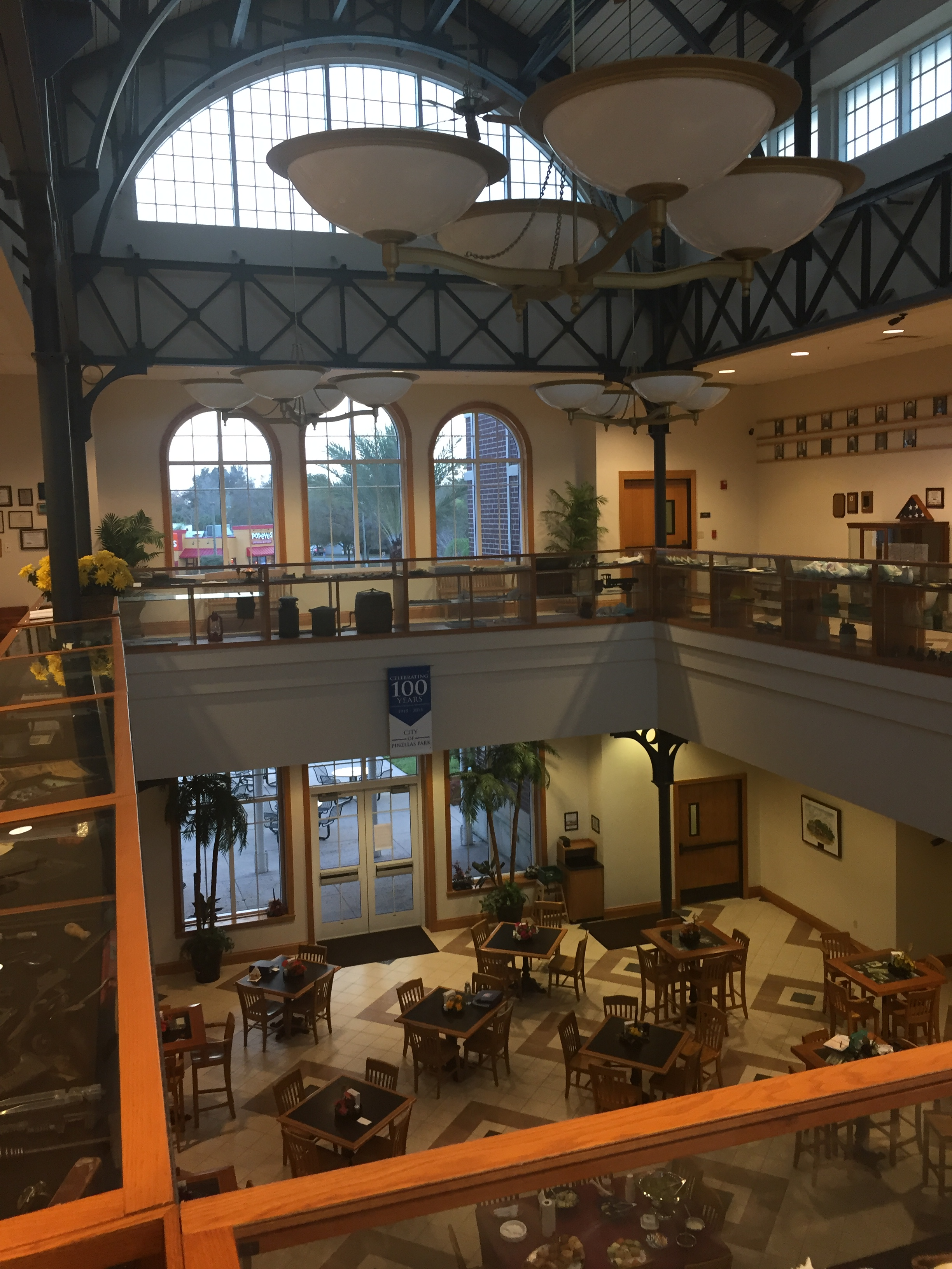 Interior shot of Park Station, a municipal building of Pinellas Park, Florida housing meeting rooms for the historical society, garden club, and arts society, the Chamber of Commerce, a counter service deli, and dining area. Along the balcony railing of the second floor are cases containing photos and historical objects relative to the city.